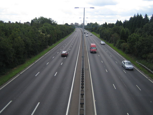 A406 North Circular Road in Ilford This was taken from the same footbridge and looking in the same direction as John's image. The 1940s Ordnance Survey map does not show any road here at all with the current golf course to the west of the road extending up to the boundary of the residential area of Cranbrook.